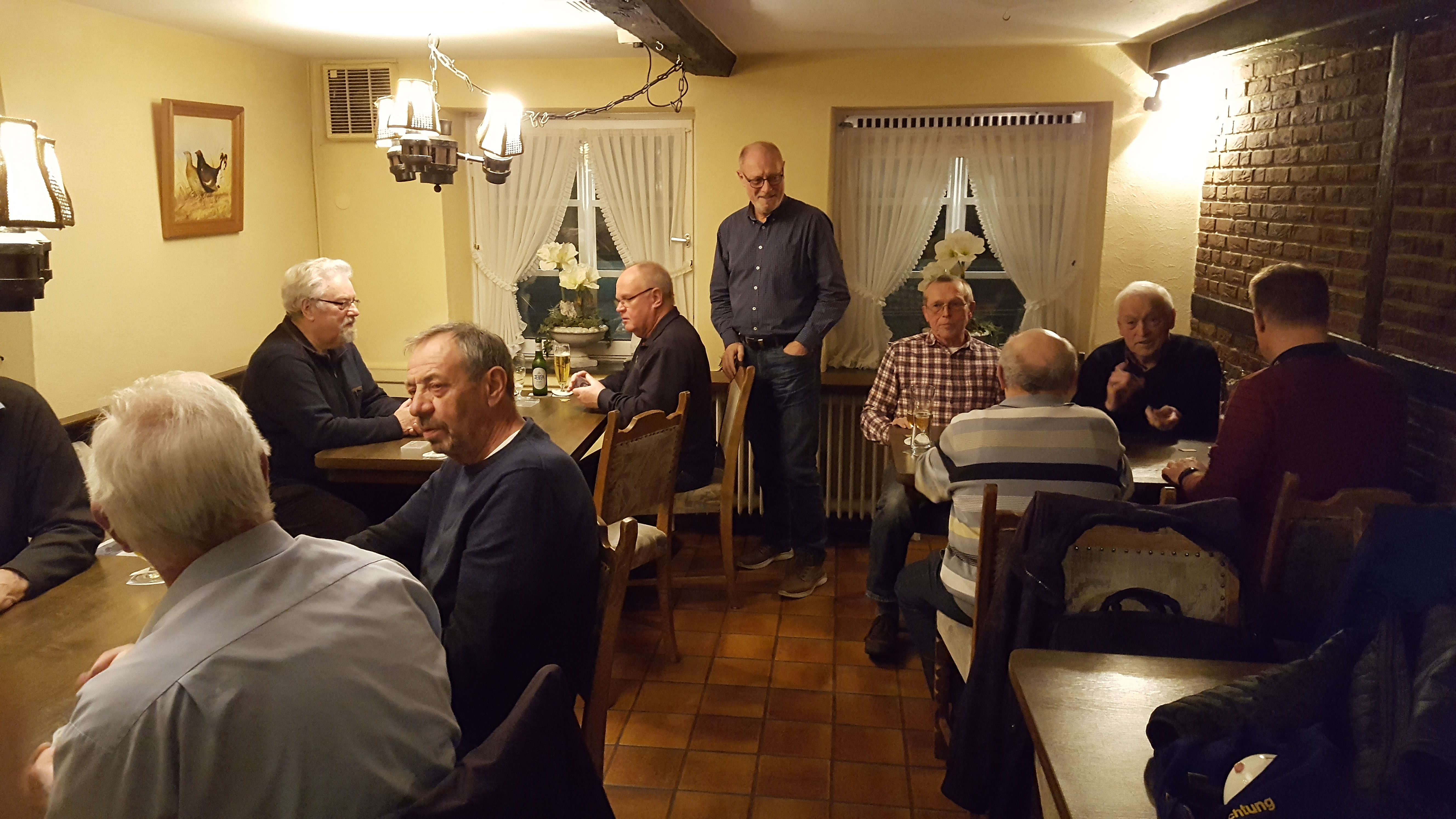 Men of the Männergesangverein "Frohsinn" von 1881 (Frohsinn Male Voice Choir) at Treia playing the card game of Bruus after choir practice.